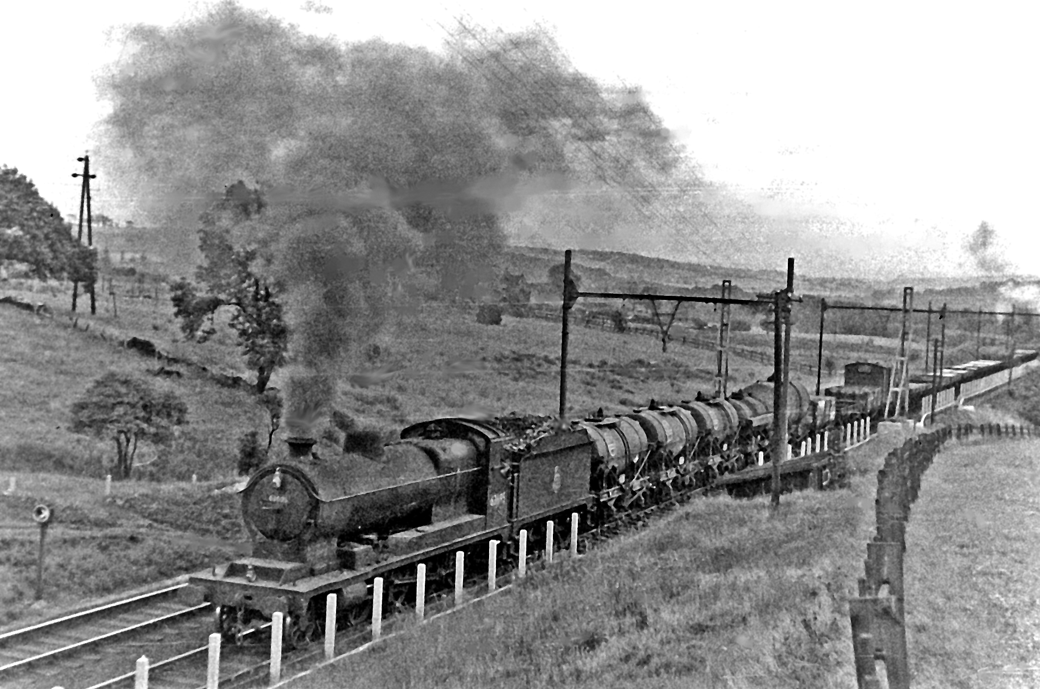 Westbound freight struggling up Worsborough Bank approaching West Silkstone Junction. View eastward, towards Wombwell Main Junction and Wath Yard: ex-GC Barnsley avoiding line. The class H frieght is headed by O4/1 2-8-0 No. 63695, which was built in 5/18 as ROD No. 1677 for war service and served in France: after repatriation it was used by the GER for about a year, then put in store at Aintree (L&Y) until purchased by the LNER in 9/25 as No. 6496 (3695 from 1946); as BR No. 63695 it survived until 12/62. The celebrated 2-8-8-2 Garratt had been moved away from the Worsborough Bank in 2/49, so this train is being banked by two 2-8-0s (see SE3004 : Two 2-8-0s banking a westbound freight up Worsborugh Bank towards West Silkstone Junction.